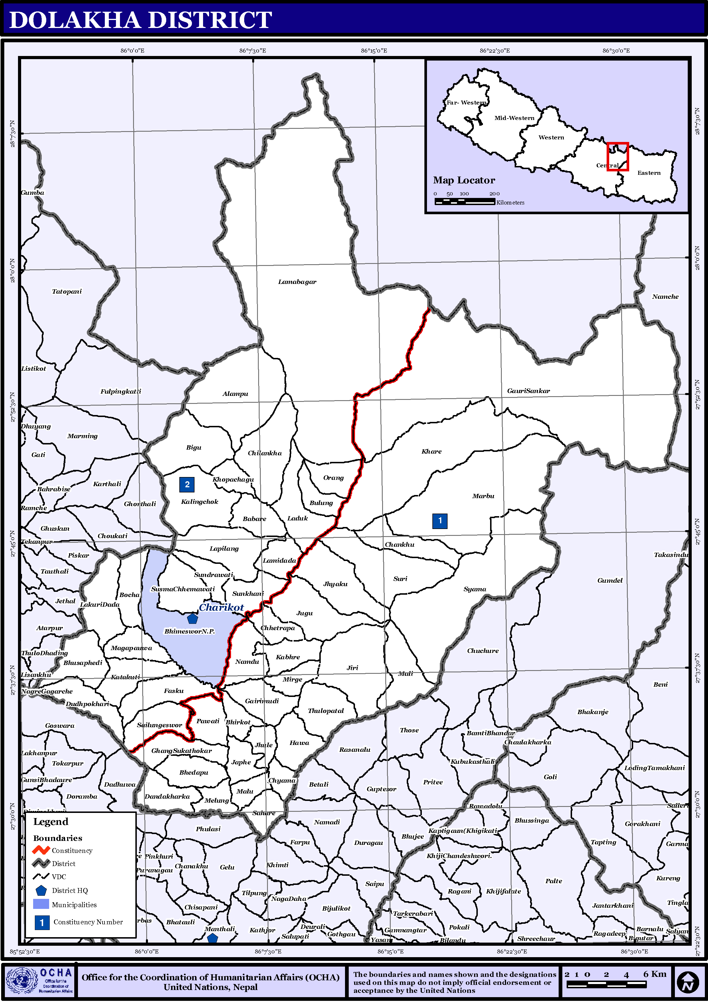 Map displaying Village Development Committees in Dolakha District, Nepal